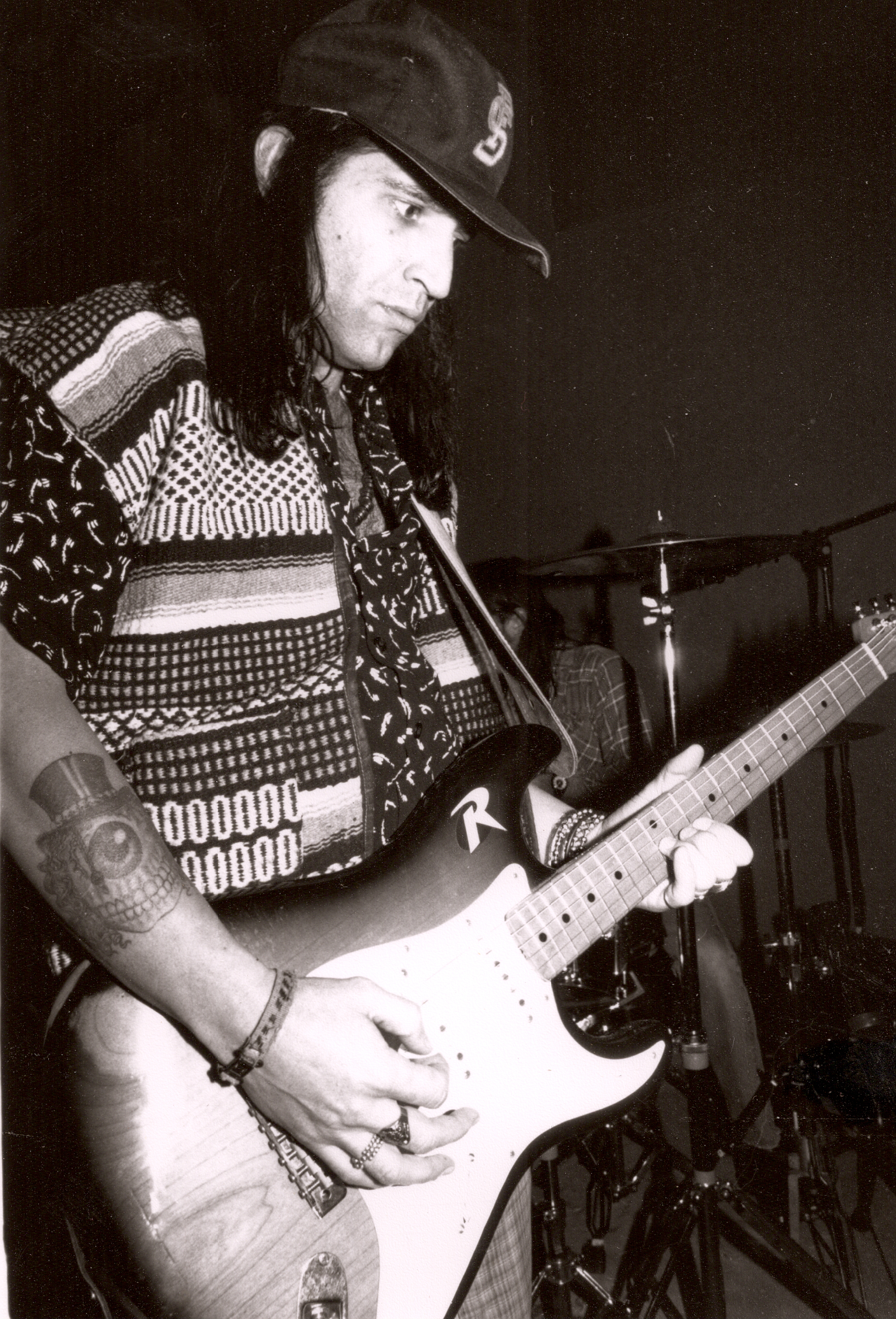 playing at reheasal